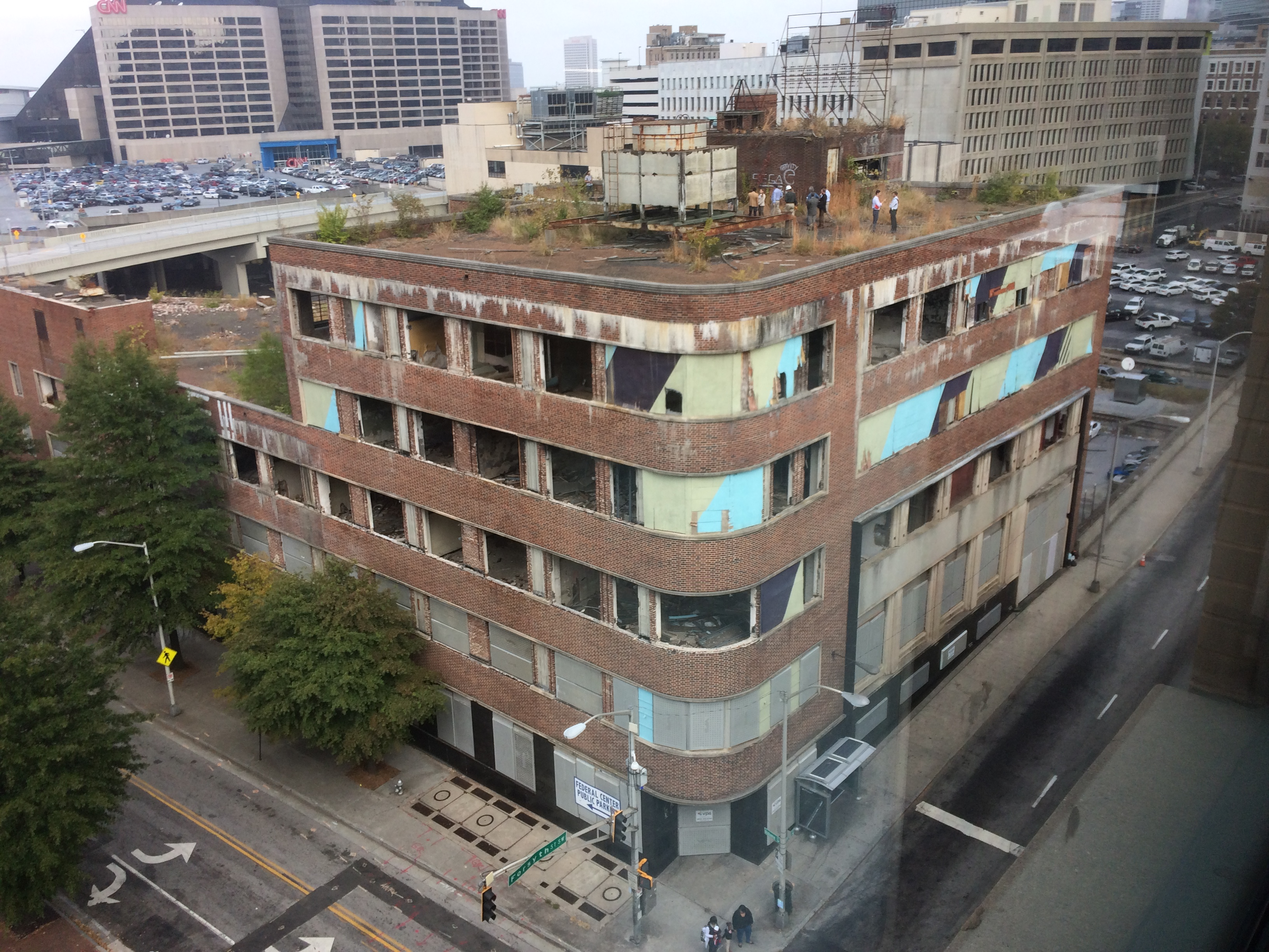 The former Atlanta Constitution Building at 143 Alabama Street, Atlanta, Ga. The long-vacant building has people on the roof, possibly related to the city's request for proposals to redevelop the structure.